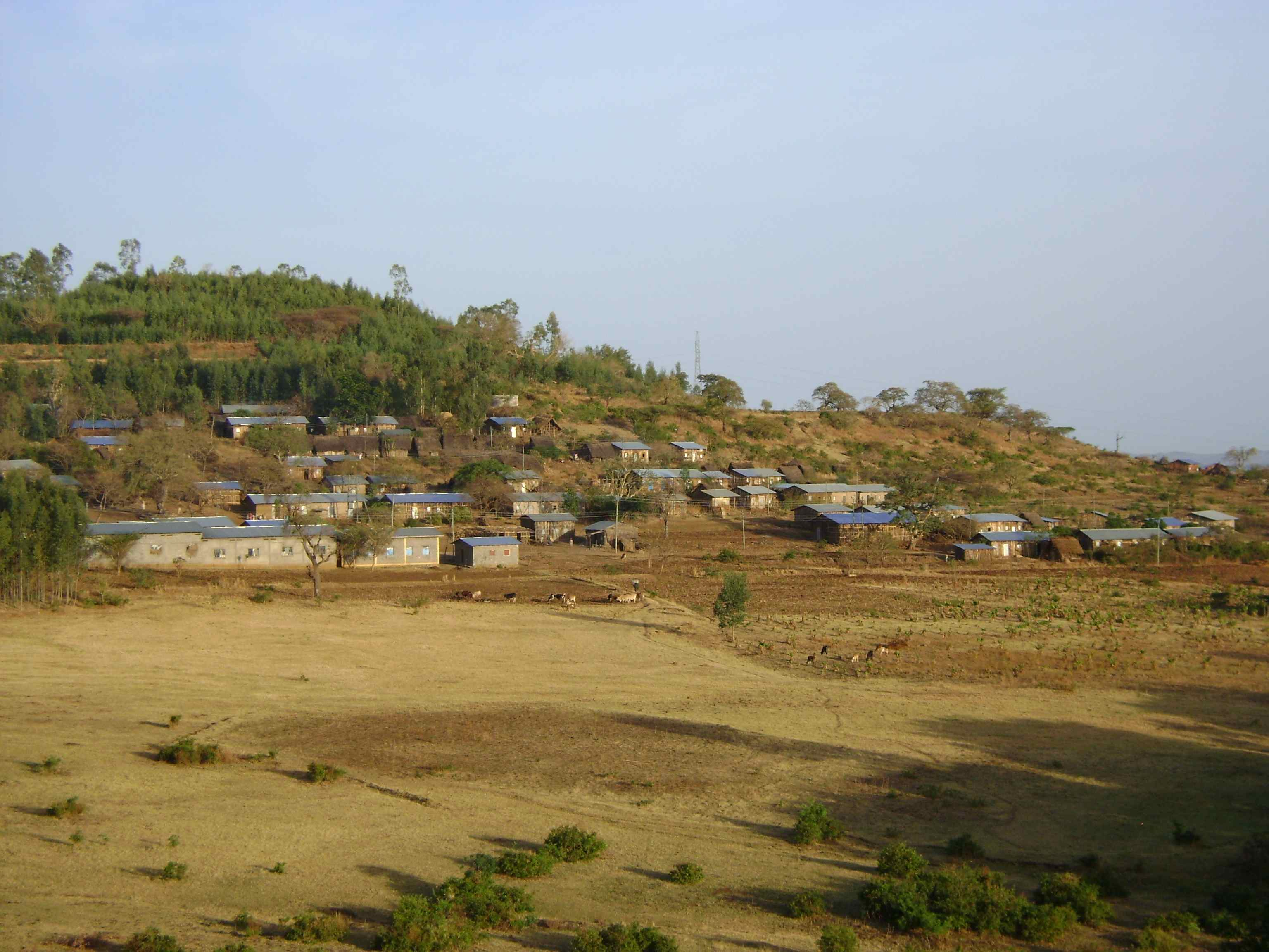 Territory of the Awra Amba community, Ethiopia